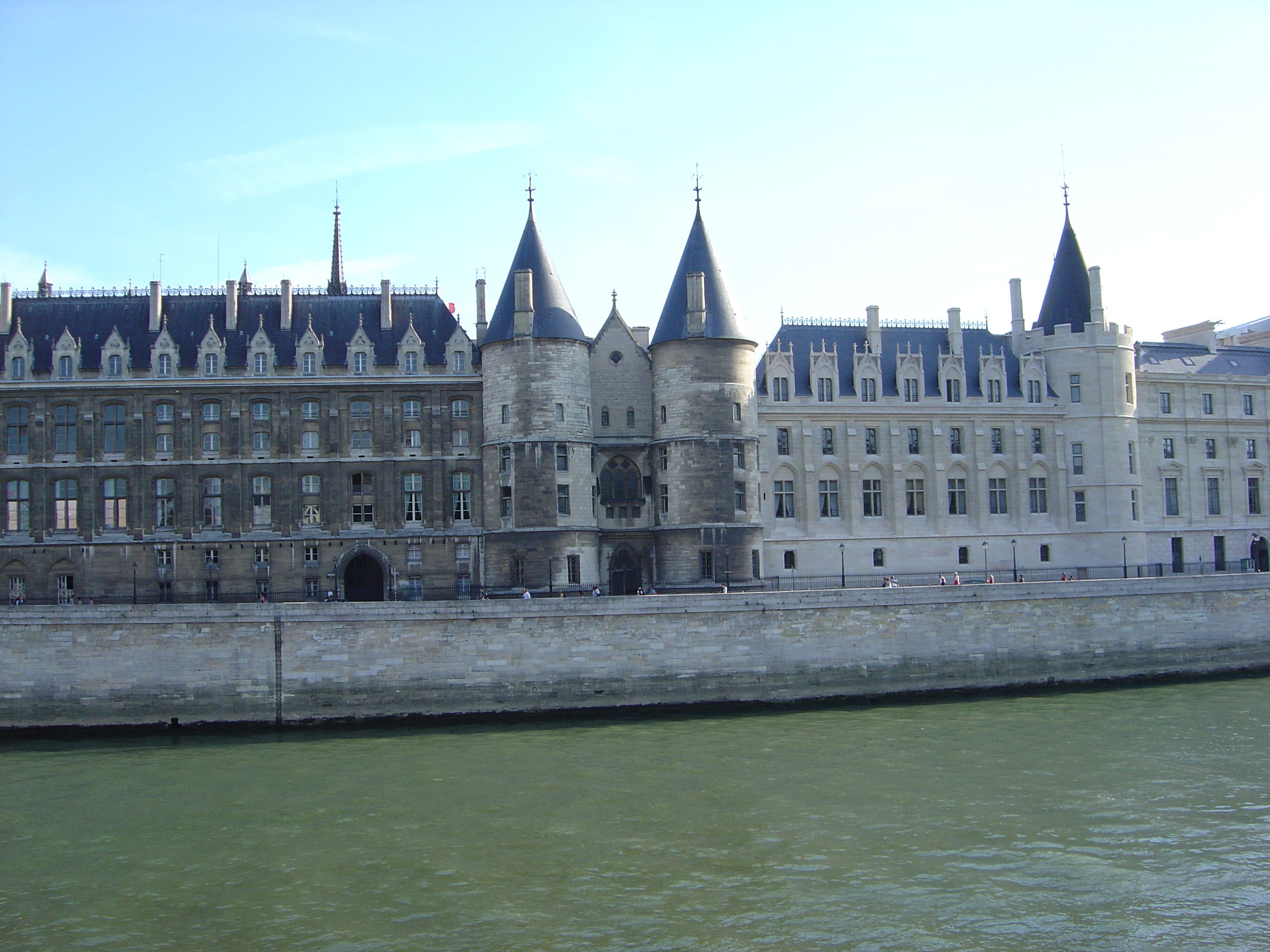 The Conciergerie, Paris